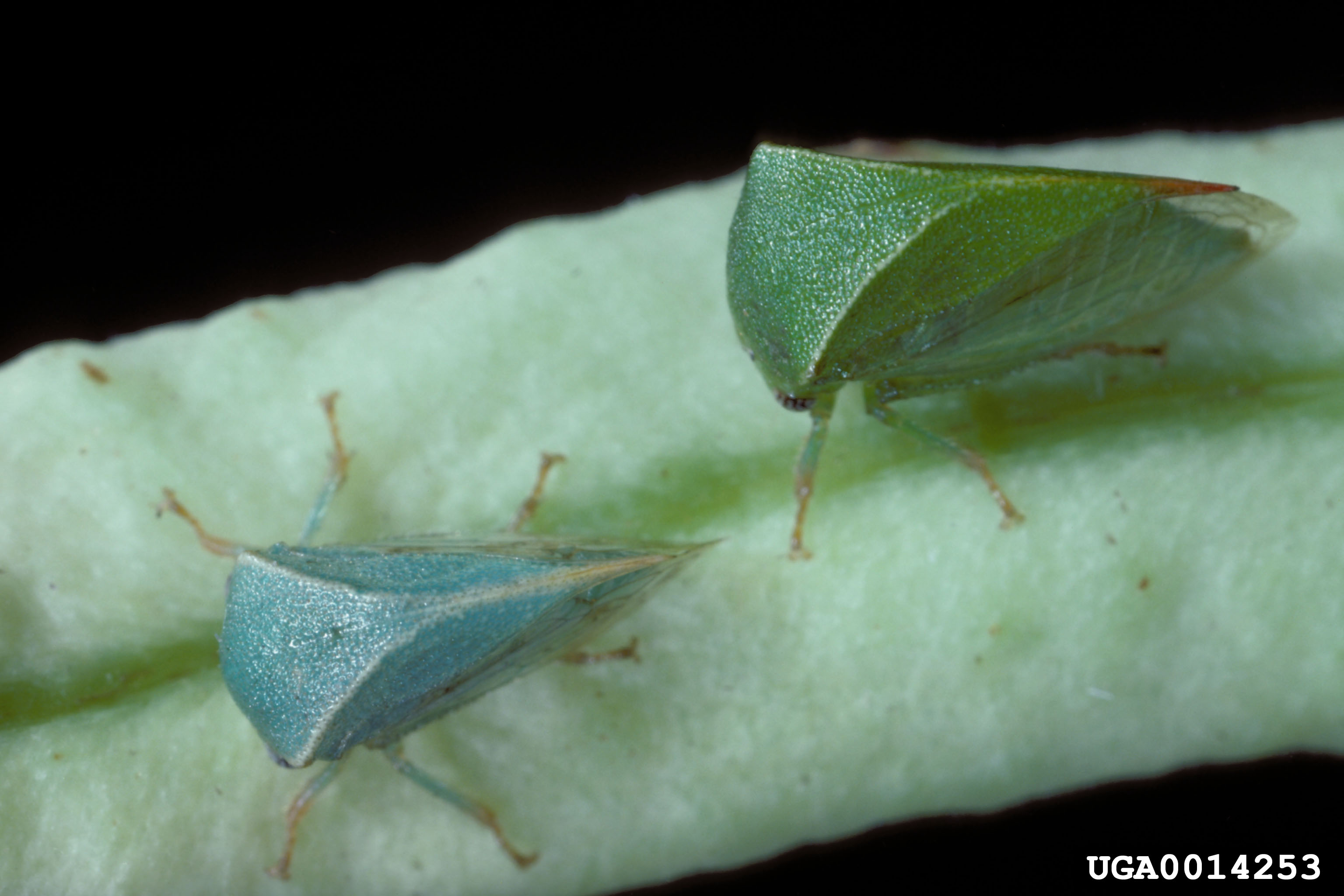 Insect species Spissistilus festina